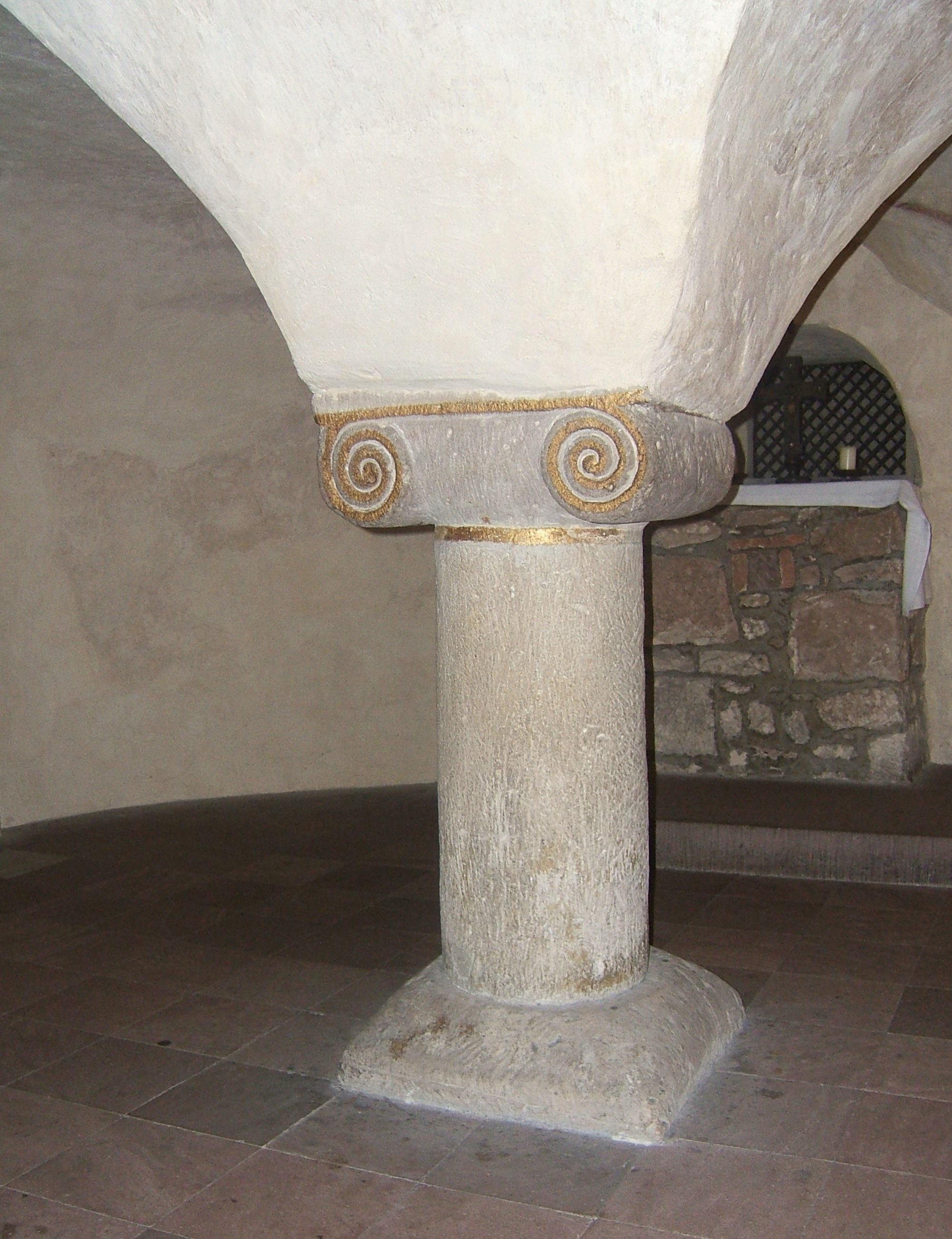 Crypt of St. Michael's Church in Fulda.